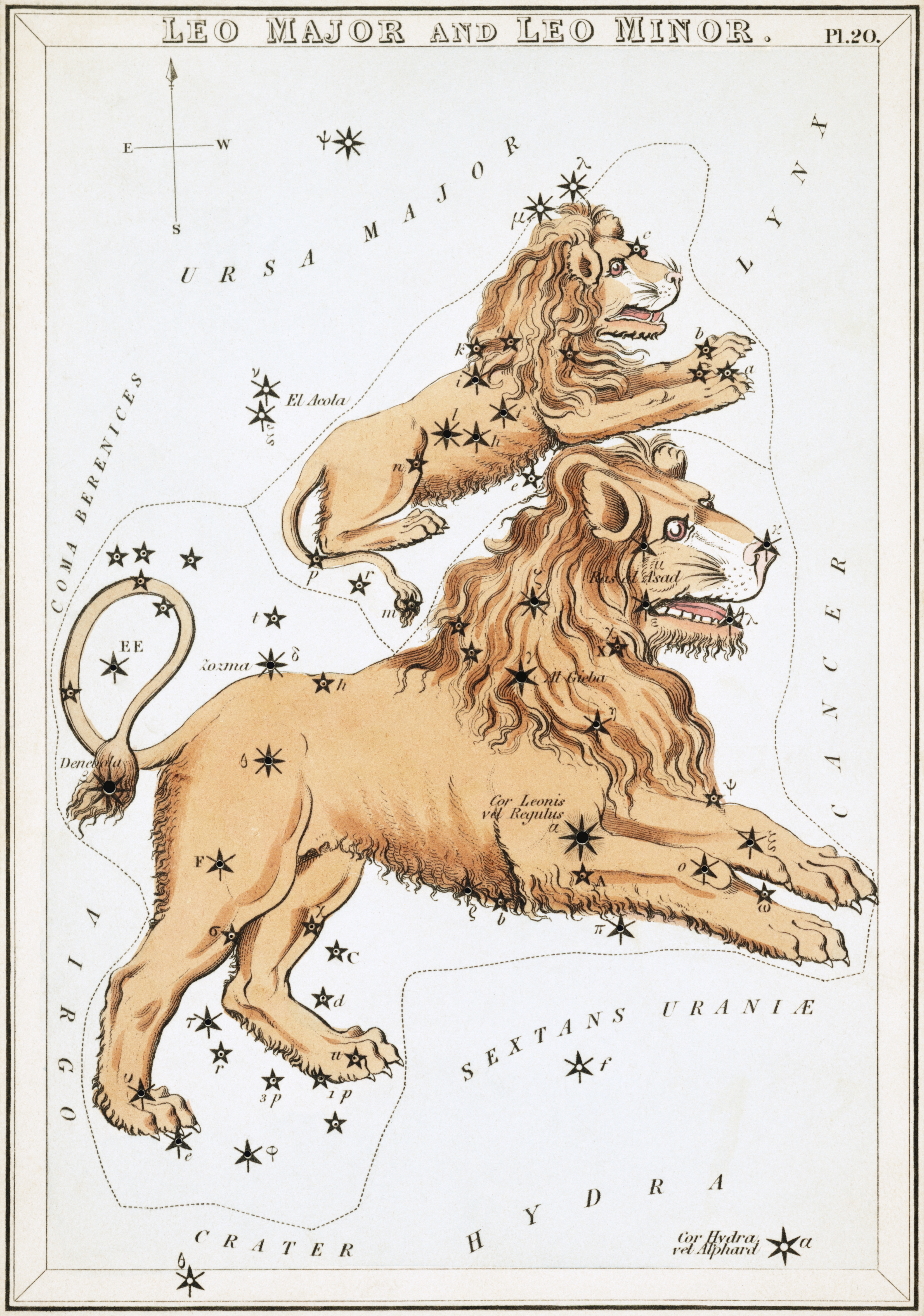 "Leo Major and Leo Minor", plate 20 in Urania's Mirror, a set of celestial cards accompanied by A familiar treatise on astronomy ... by Jehoshaphat Aspin. London. Astronomical chart, 1 print on layered paper board : etching, hand-colored.